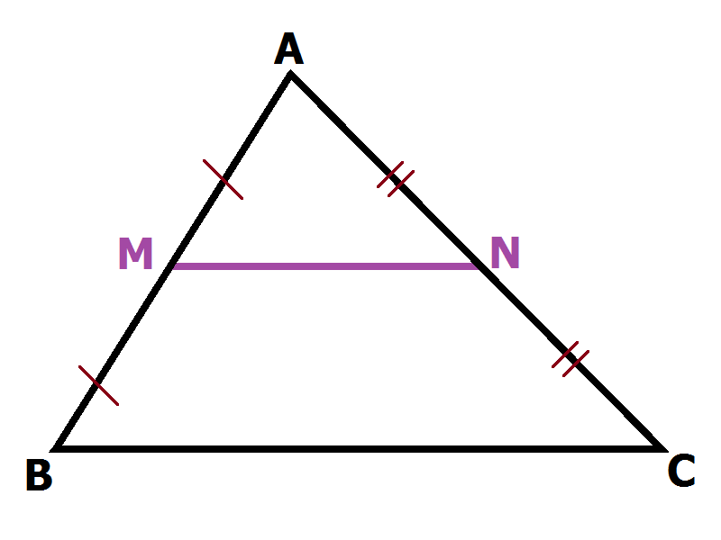 Central median of a triangle